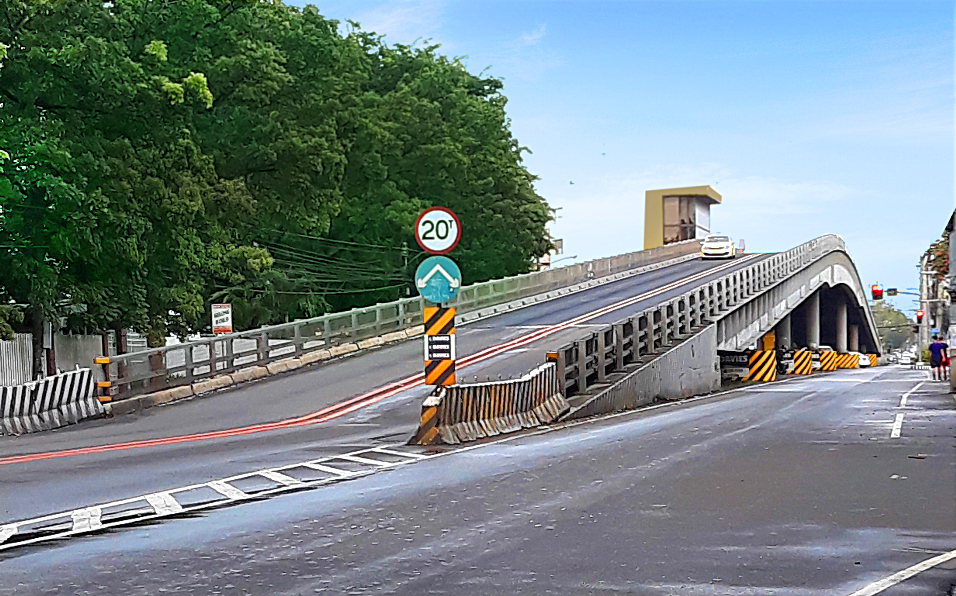 Infante Flyover in Iloilo City - the first flyover outside Manila.